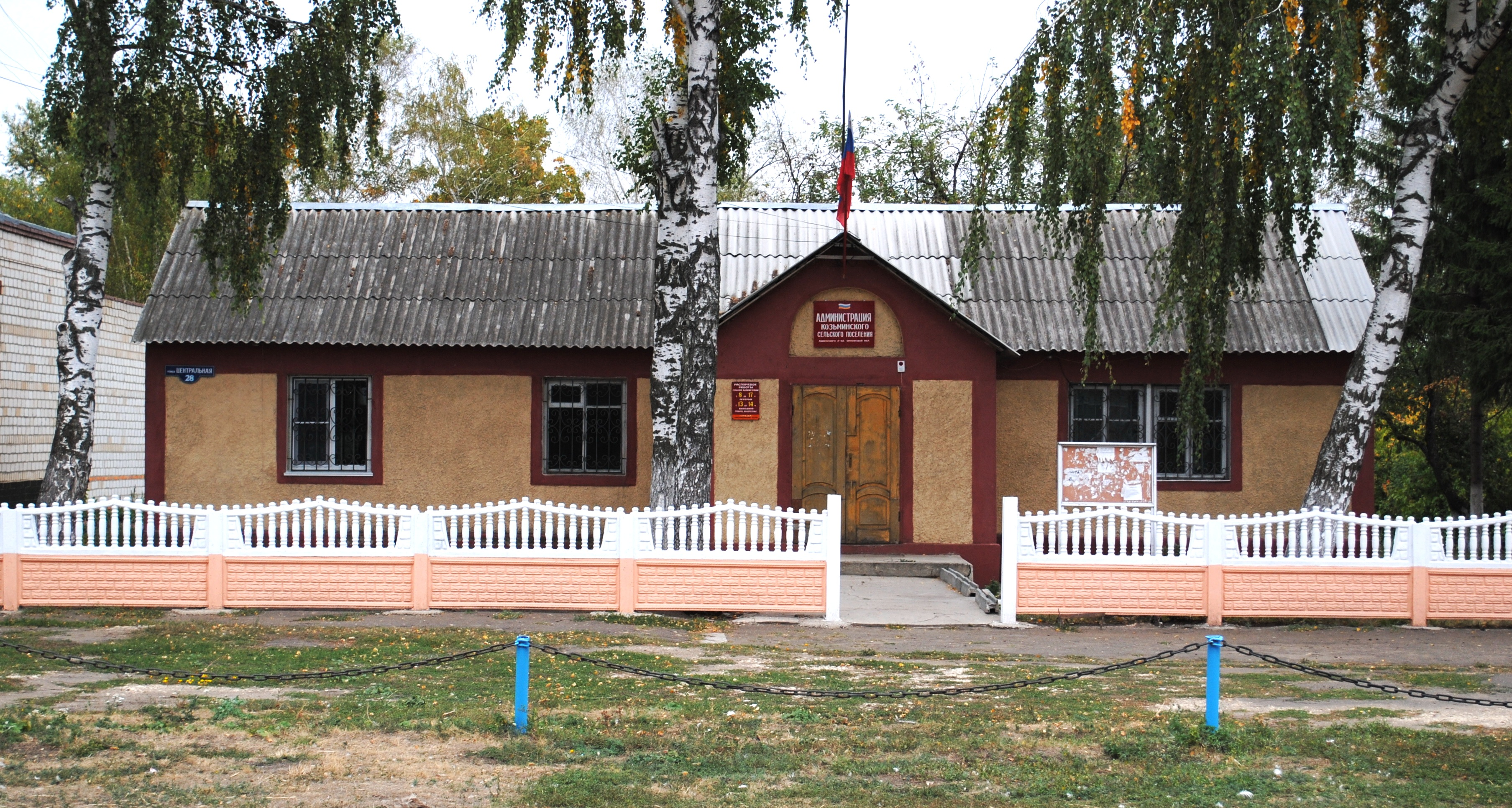 Kozminskoe